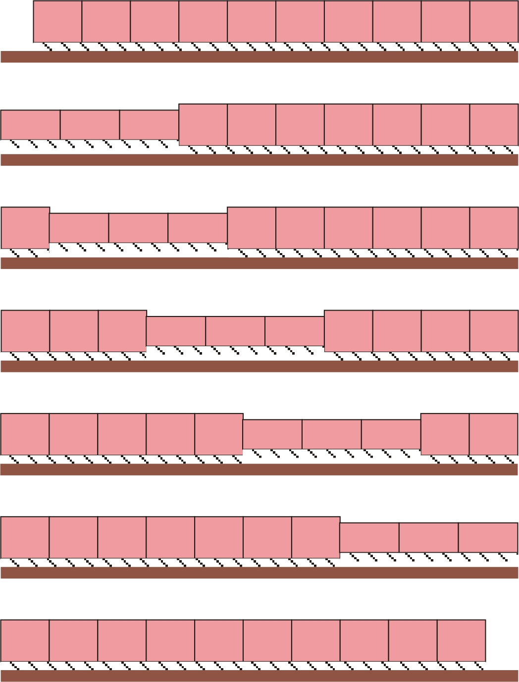 Sequence of stills illustrating earthworm movement by peristalsis